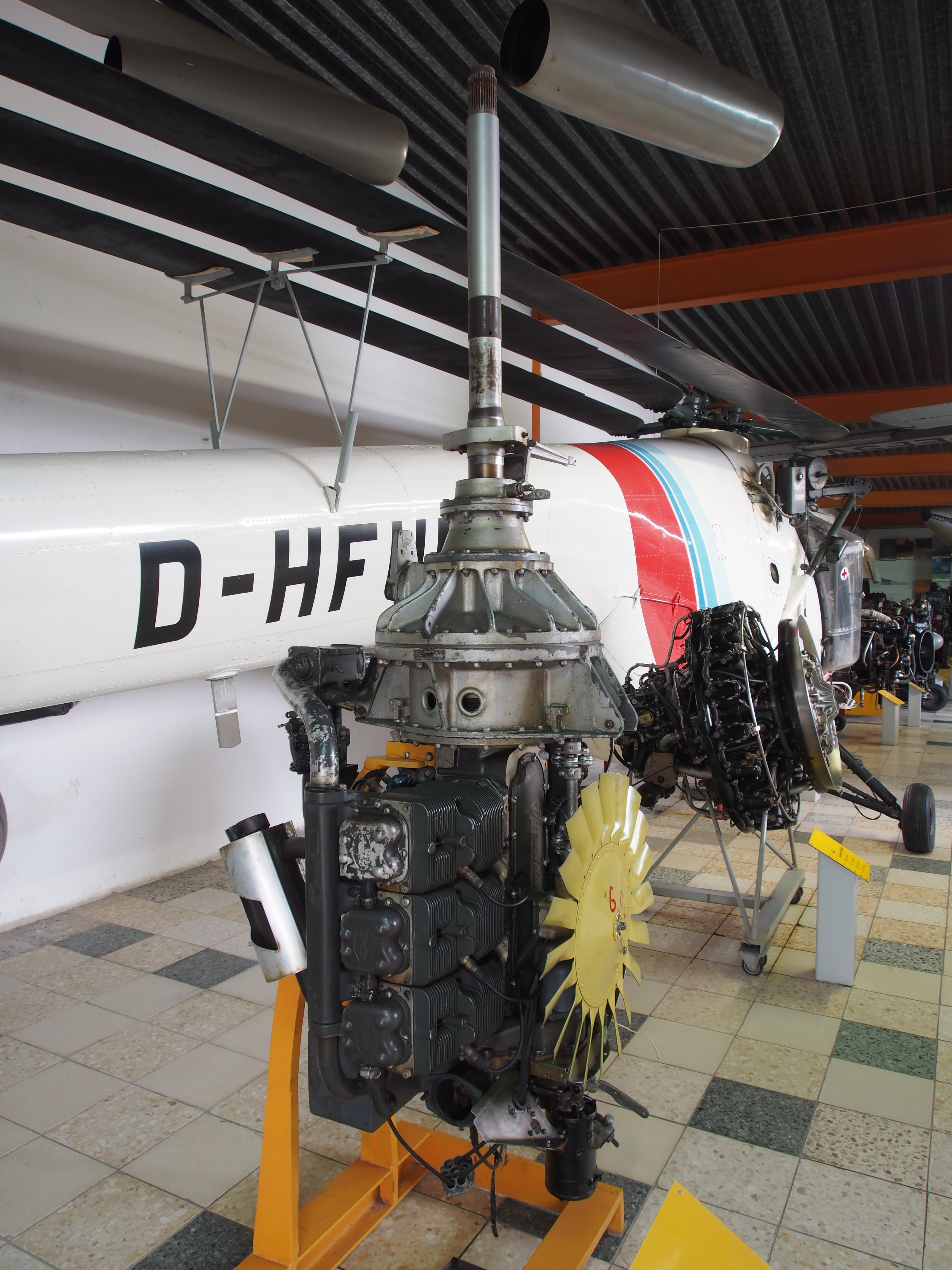 Photographed at Flugausstellung L.+P. Junior, Hermeskeil, Germany.